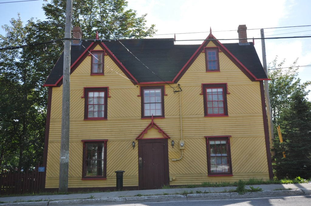 Victoria Manor, Harbour Grace, Newfoundland.